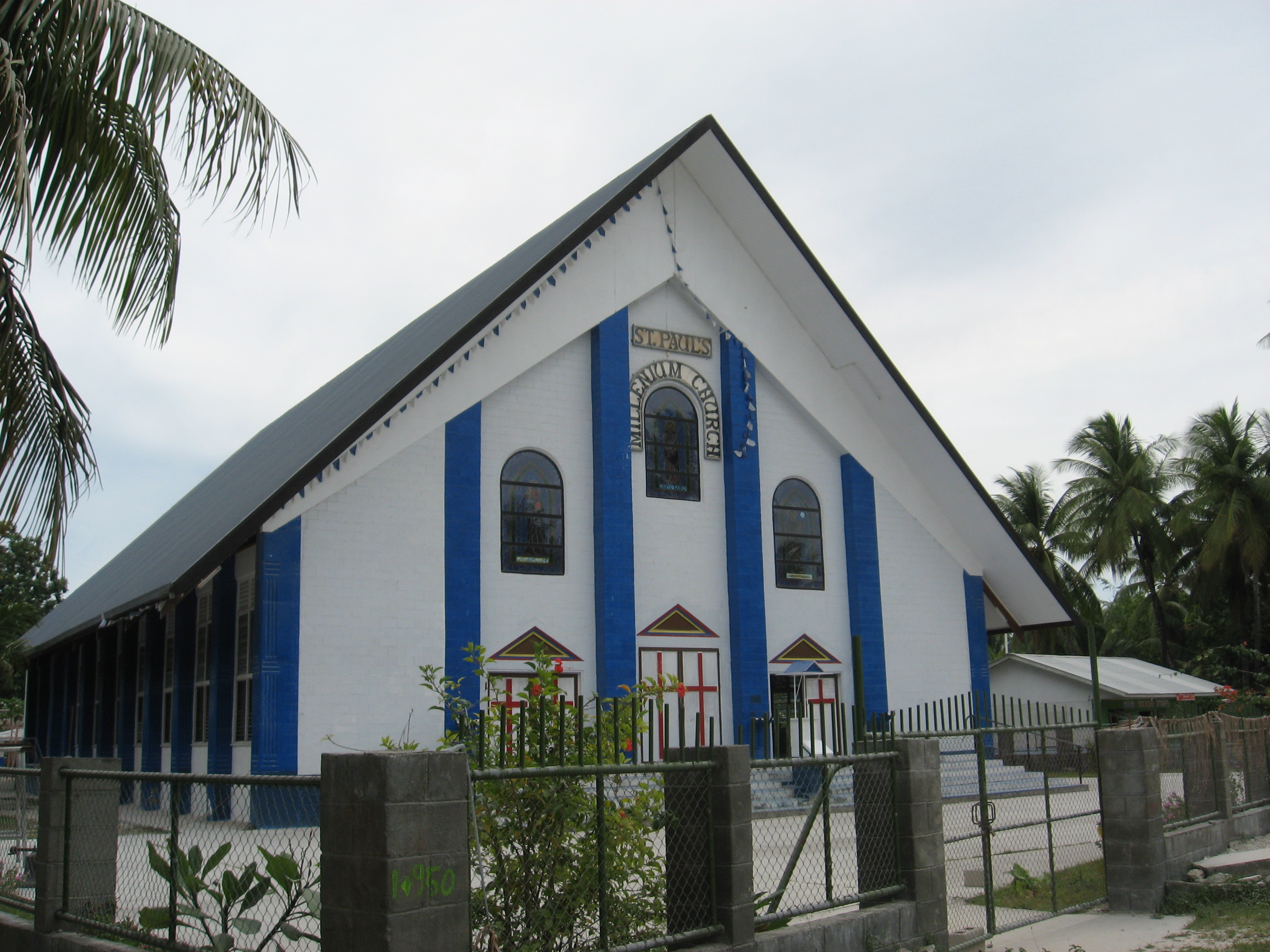 St Paul's Millenium Church, Betio, Kiribati